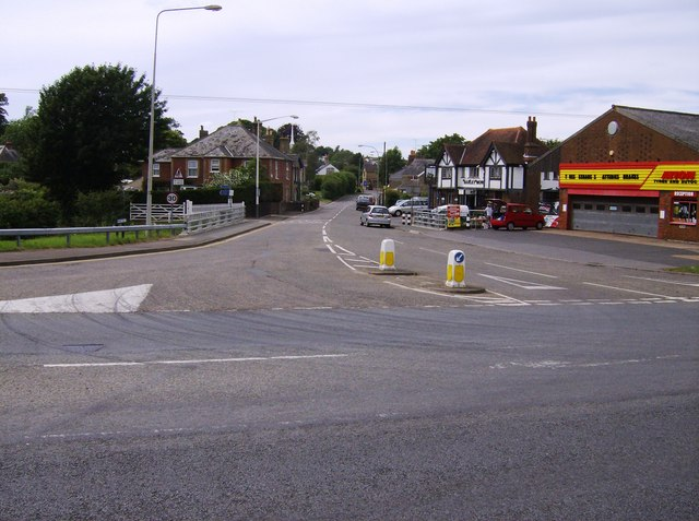 Shide Corner, near to Newport, Isle of Wight, Great Britain. The A3020 Ventnor to Newport road runs across the foreground with the B3401 to Carisbrooke running away from the camera. The river Medina runs under the bridge by the lamp post and behind the tyre depot. Its route is closely followed by the old Sandown to Newport railway line, now a cycle route but only as far as this point. Shide Corner here is generally reckoned to be the centre of the Isle of Wight, although a look at any map suggests it is a little too far north and east.